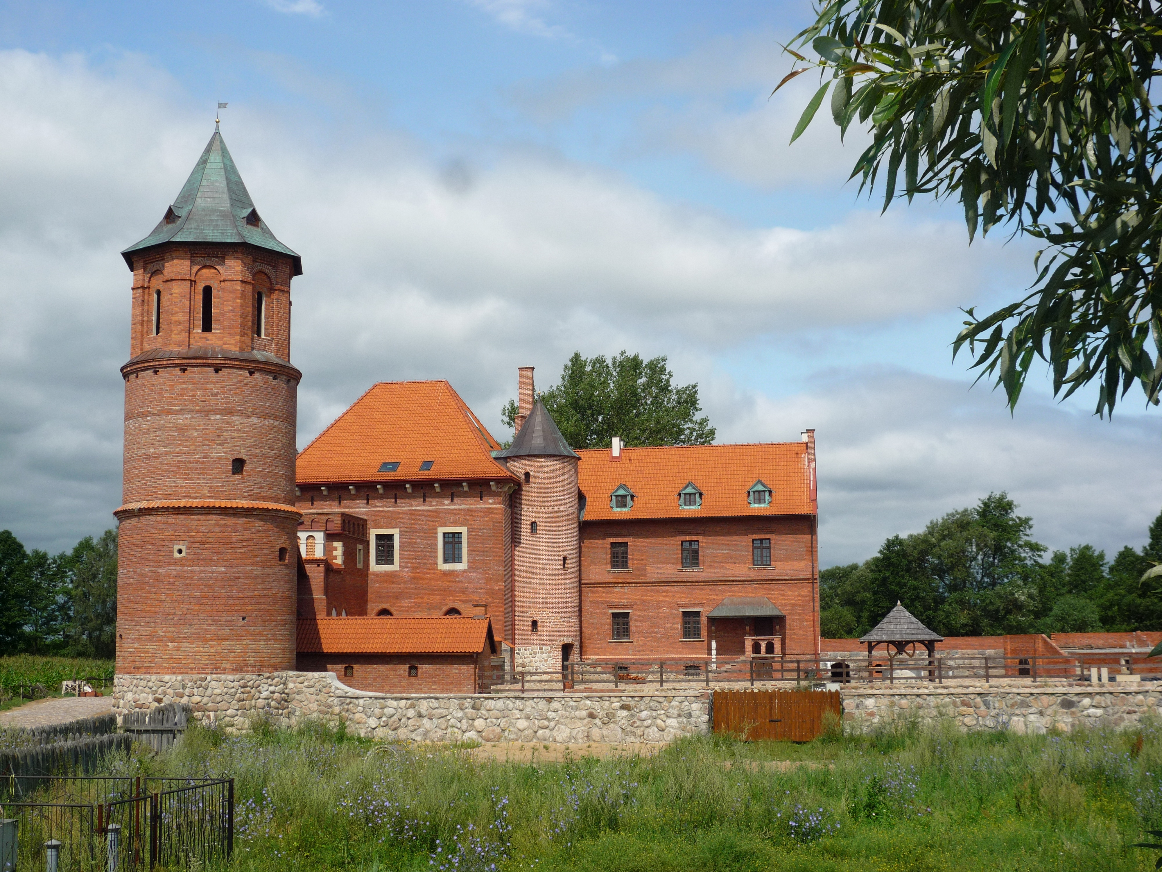 Castle in Tykocin, built in 1433 and expanded in 1550-1582 by king Sigismund Augustus. Destroyed 1771/1914, was partially rebuilt in 2005.